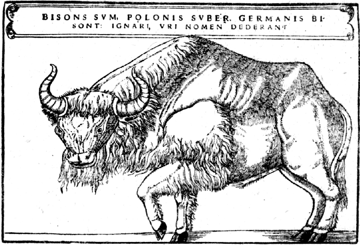 wisent (European bison)